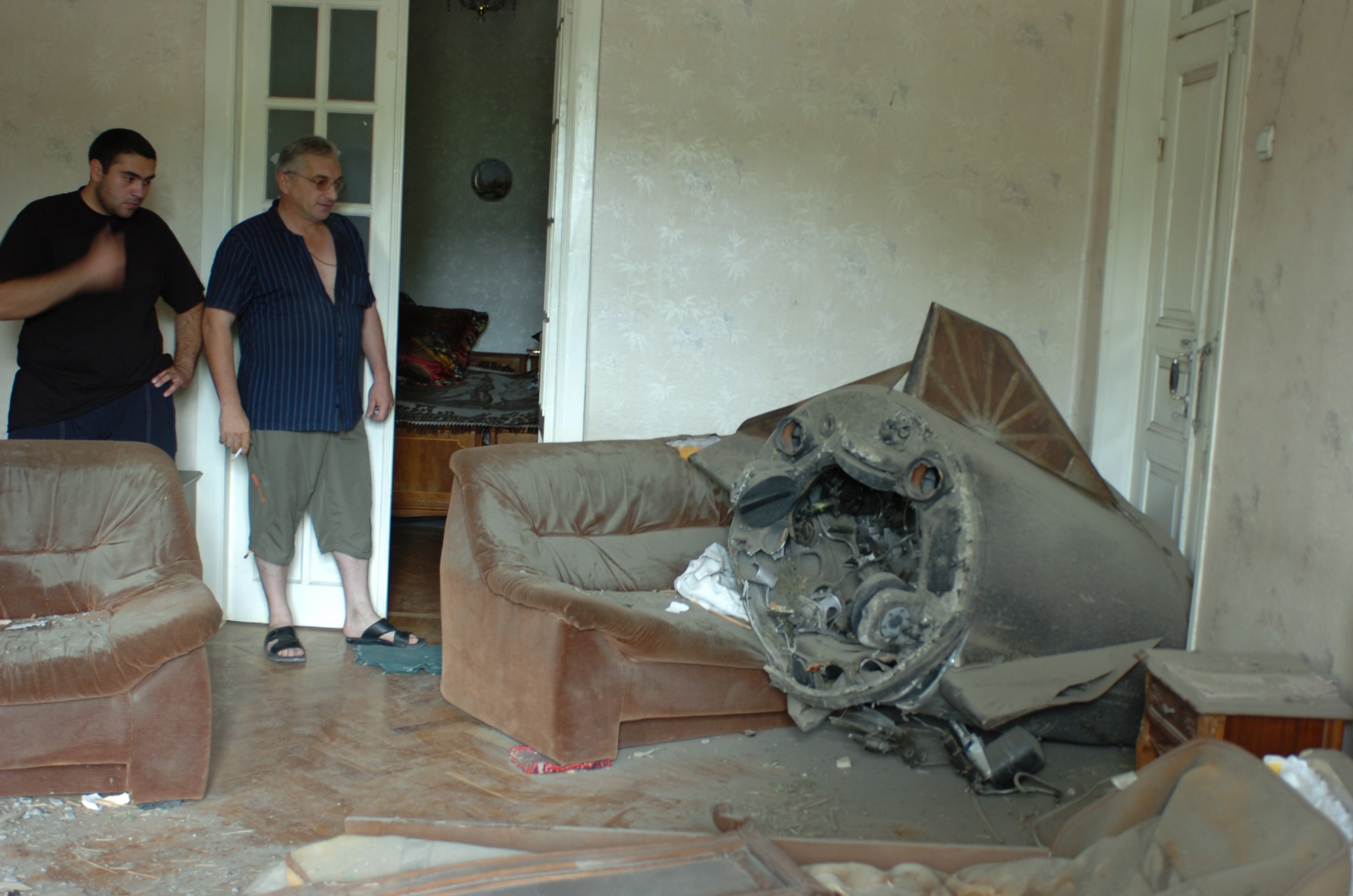 A Russian missile rocket booster stage lies largely intact in the master bedroom of a home in Gori, Republic of Georgia, Aug. 25, 2008. Residents of Gori begin to return home and start to clean up their city following the recent conflict between Russia and Georgia. Members of U.S. European Command's Joint Assessment team and officials from the government of Georgia tour the embattled city to assess the level of damage, status of relief efforts, and the return of displaced persons.